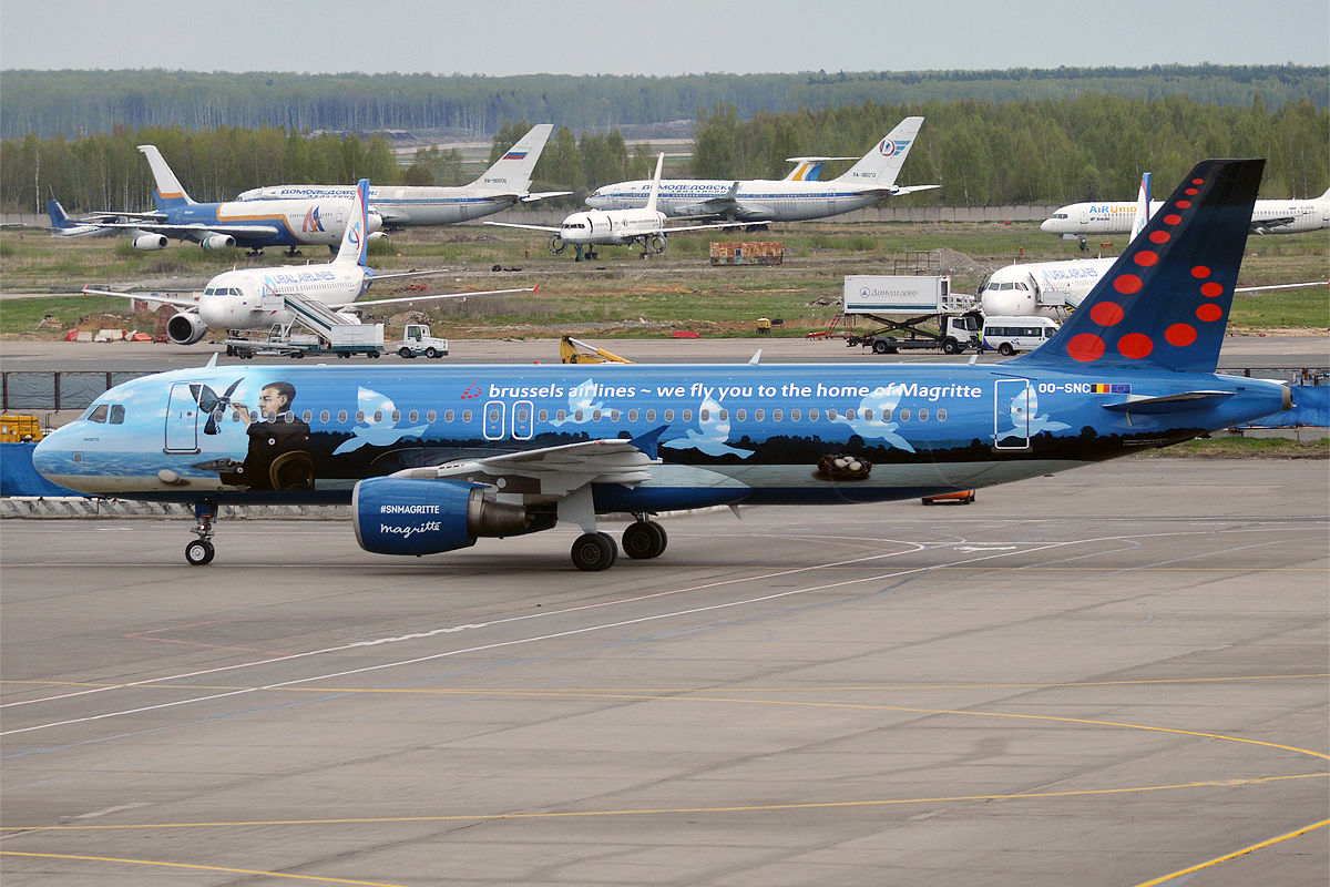 Brussels Airlines (Magritte Livery), OO-SNC, Airbus A320-214